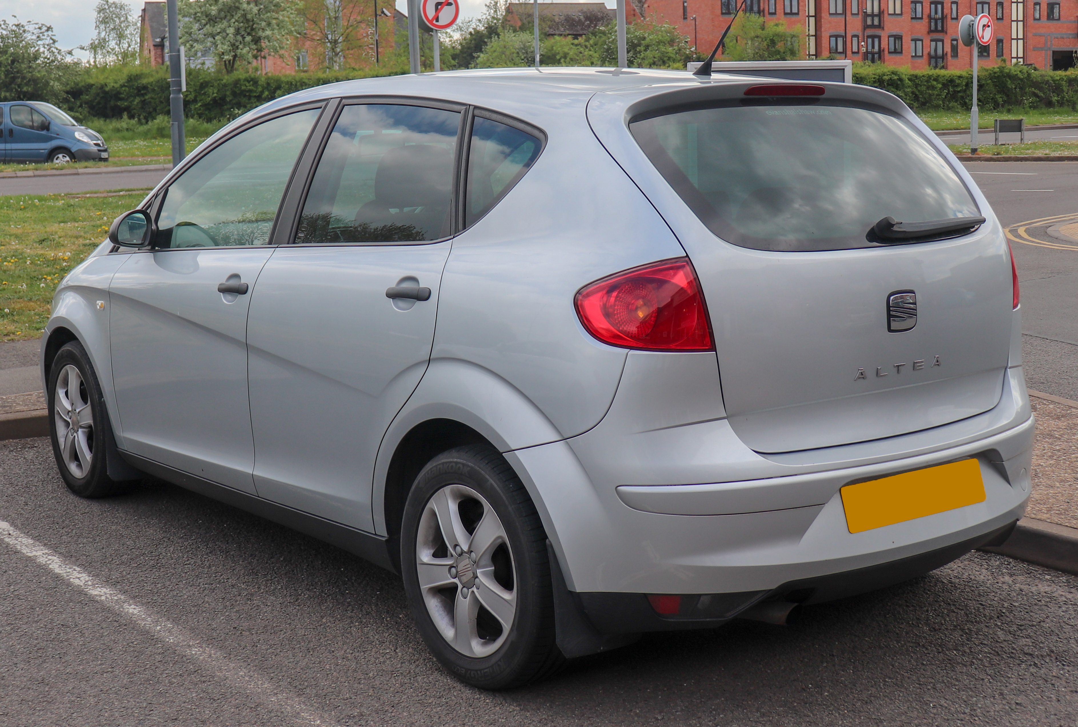 2007 SEAT Altea Reference TDi 1.9 Rear Taken in Leamington Spa